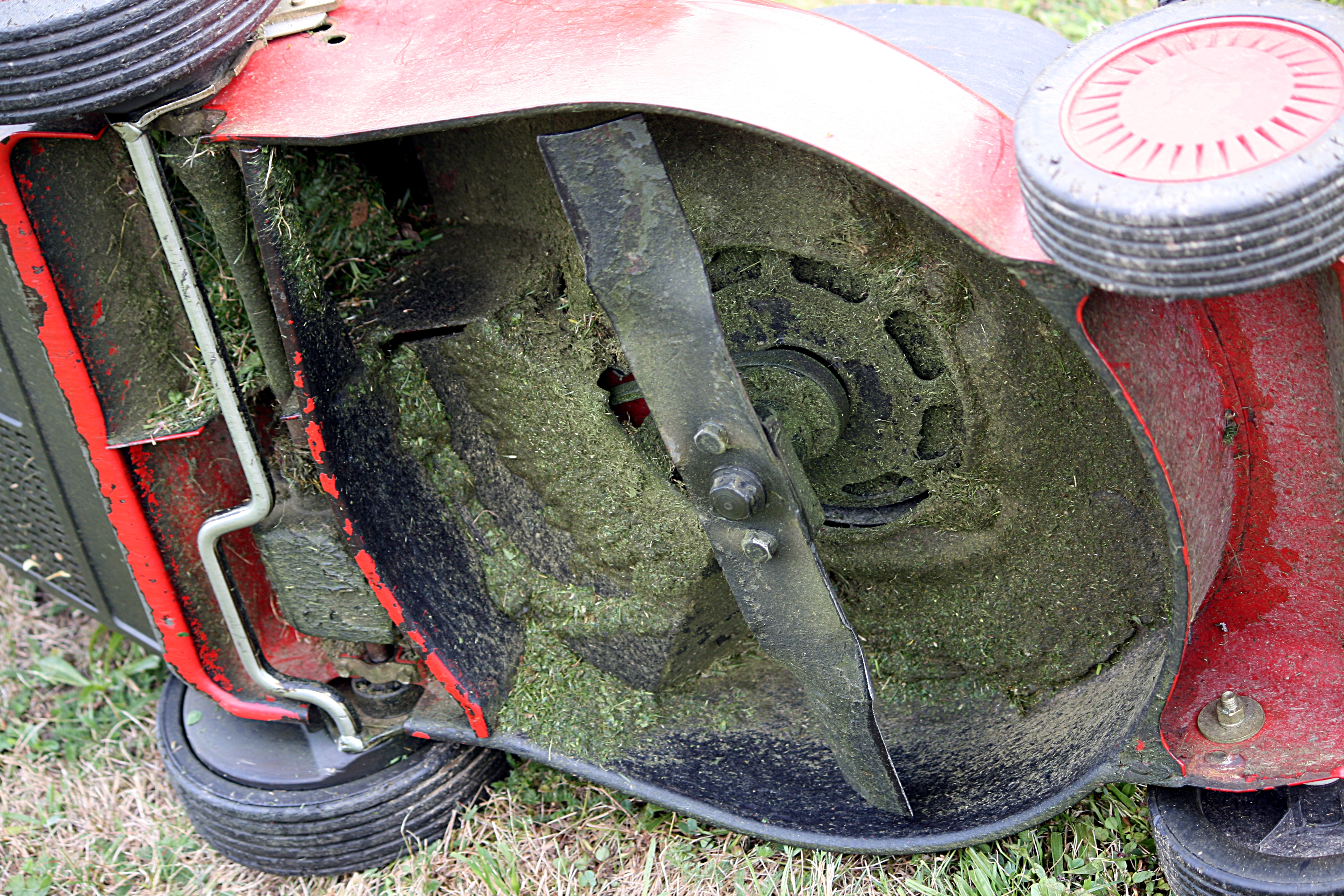 Electric lawn mower underside